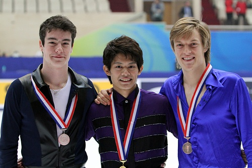 Brandon Mroz, Takahiko Kozuka and Tomáš Verner at the Cup of China 2010